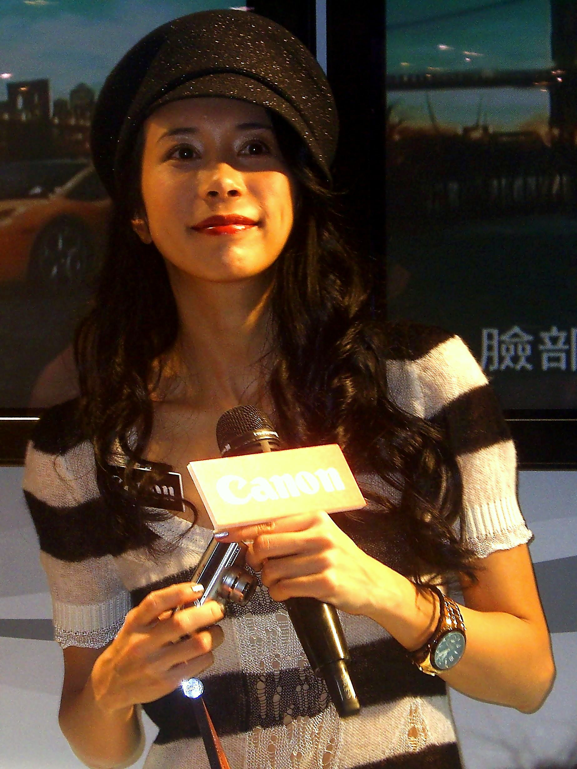 2007 Taipei IT Month: Karen Mok @ Canon's activity.